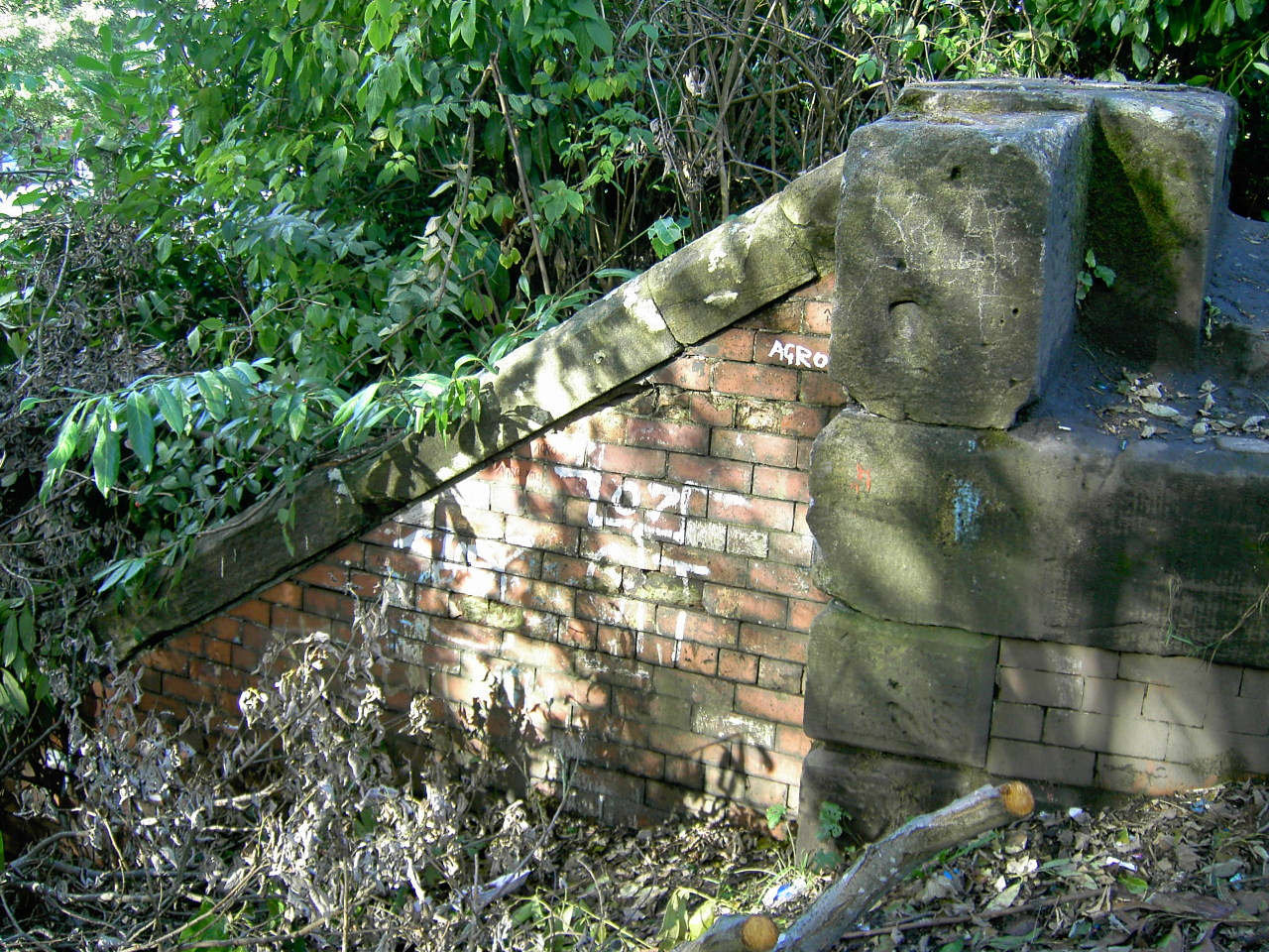 Glenfield station near Glenburn Road footbridge at Knockside Avenue 2007.